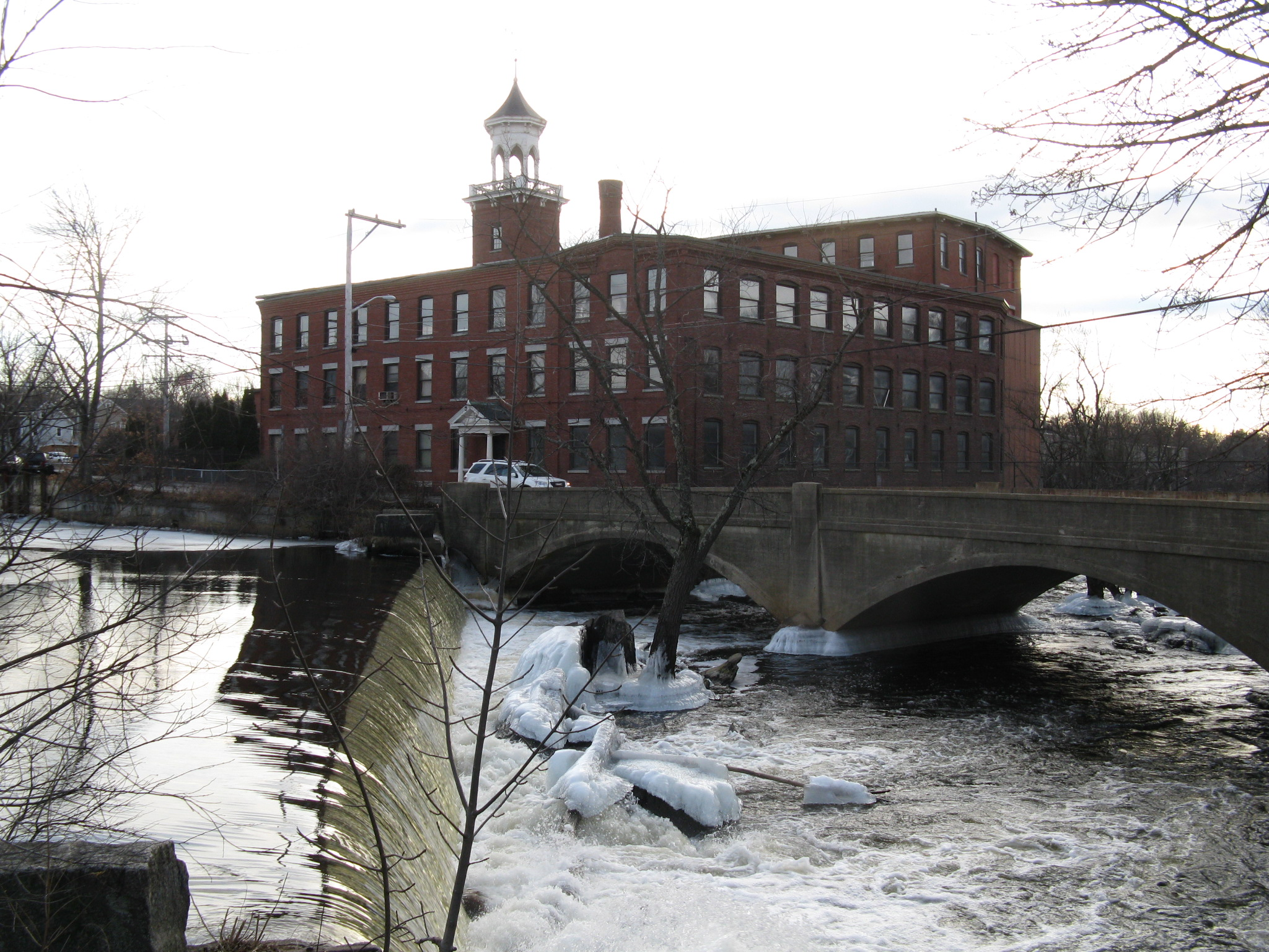 Old Talbot Mills, Billerica Massachusetts